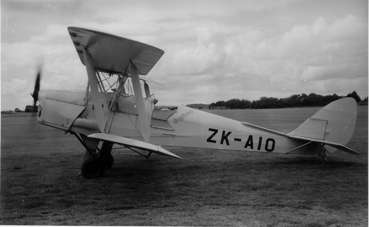 Purchased from agent for estate of photographer, purchase including right to release for free use. Intent to post on wikipedia specifically stated and allowed. Photographed in 1950, this de Havilland Tiger Moth was built at Hatfield and exported in March of 1939 to the Wellington Aero Club as ZK-AGW, before becoming NZ703 of the RNZAF in September of that year. Sold to the Middle Districts Aero Club in 1946, when the tail was damaged. It was sold to Barr Brothers in early 1950 and converted to aerial topdressing as seen here, before being written off in accident at Waiuku on 07 November 1950. Aircraft Services Ltd, bought the remains for spares, however ? with the fuselage of New Zealand built ZK-ASG but the logs of the wings and substantial other material from ZK- AIO returned to topdressing in 1952 as ZK-BAZ. The aircraft crashed injuring pilot Stan Caldwell in Waimai Valley on 22 March 1953.